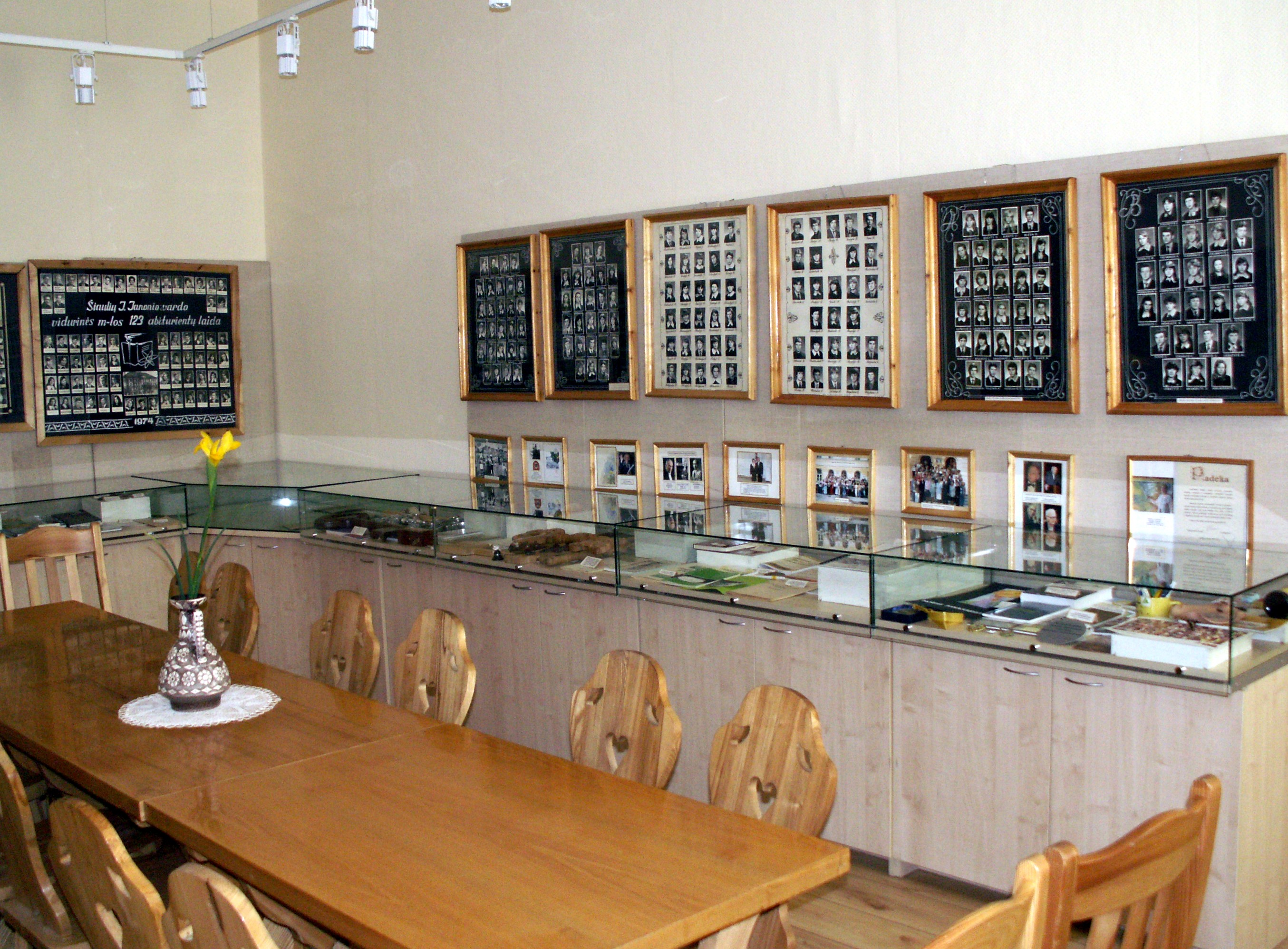 Museum of Šiauliai gymnasium, Lithuania